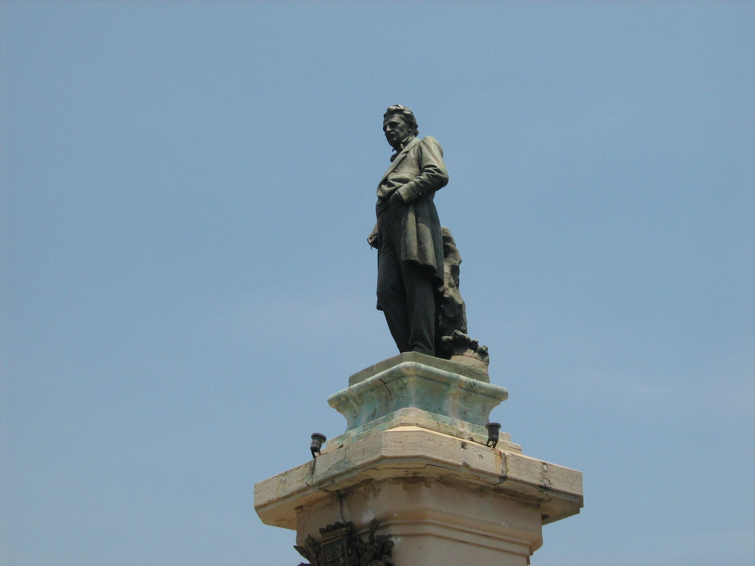 Monument to Justo Sierra O'Reilly in Mérida, México. Sculptor Jesús Contreras.